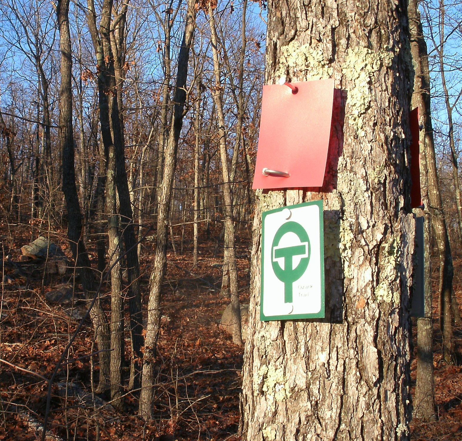 A green-on-white blaze for the Ozark Trail on Taum Sauk Mountain in Missouri. The red blaze is for the Mina Sauk Trail which coincides with the Ozark Trail at this location.